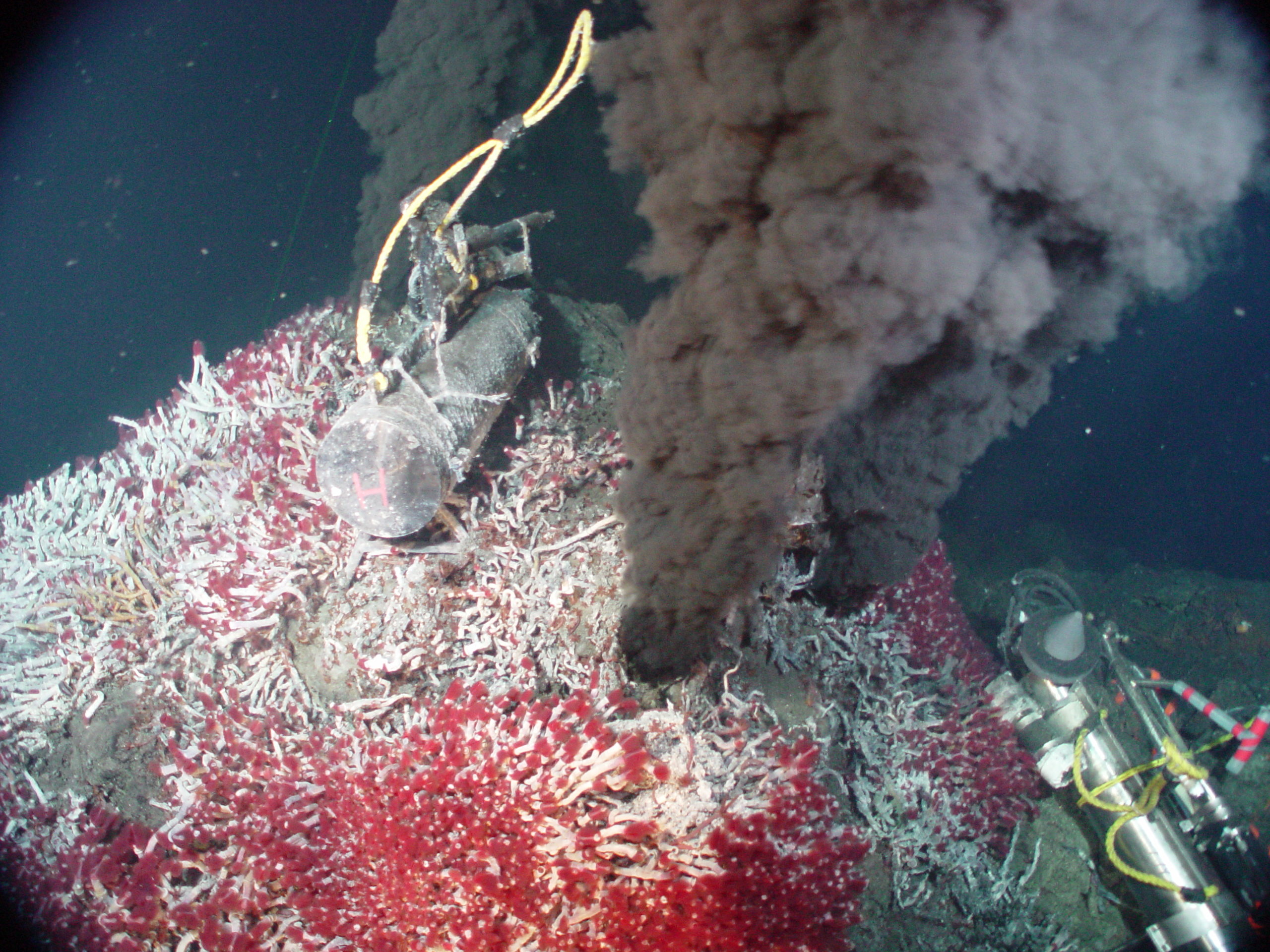 Sully Vent in the Main Endeavour Vent Field of the northeastern Pacific Ocean.